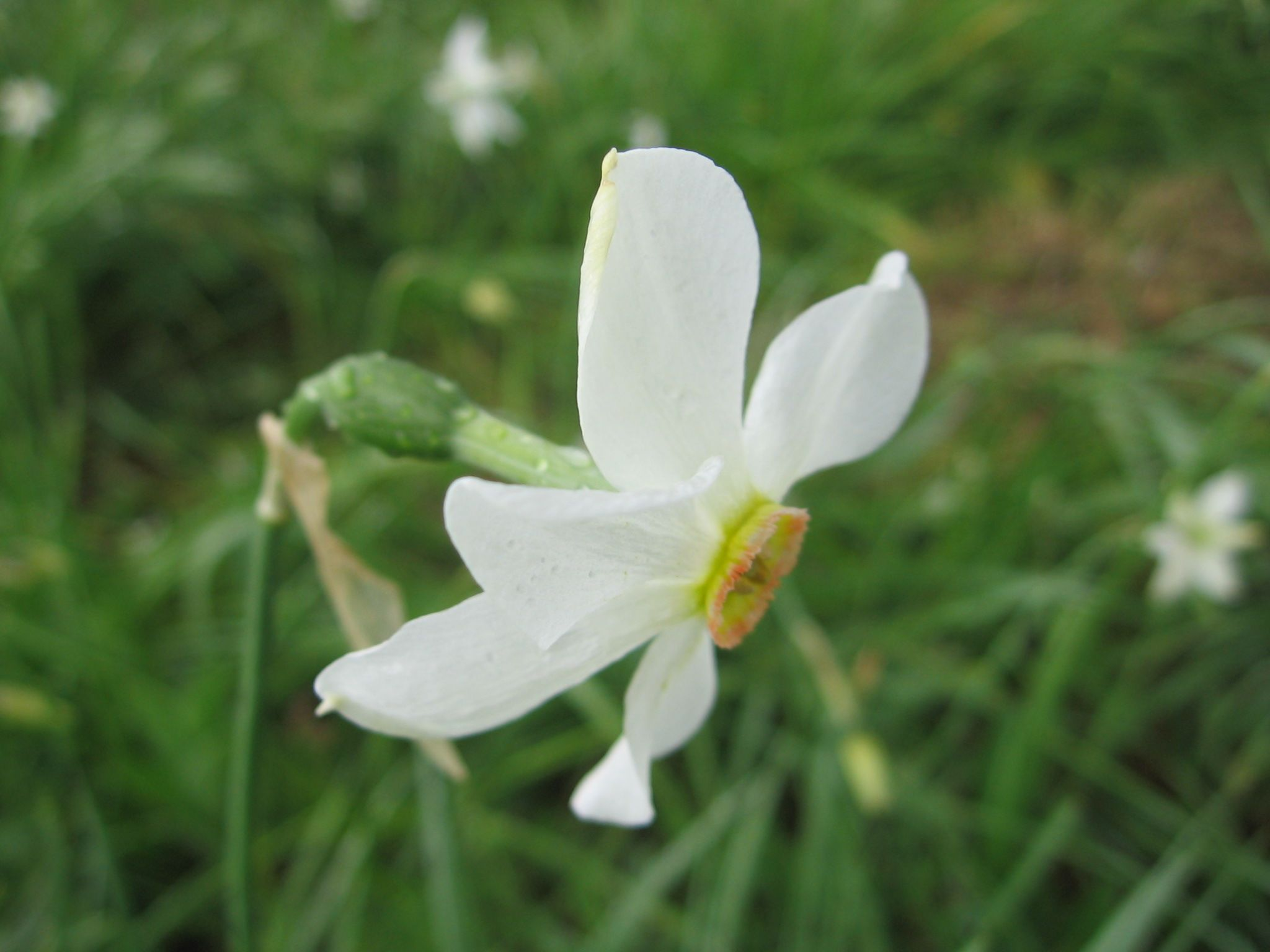 "Narcissus angustifolius" from the Valley of Narcissi (Zakarpattia Oblast, Ukraine)